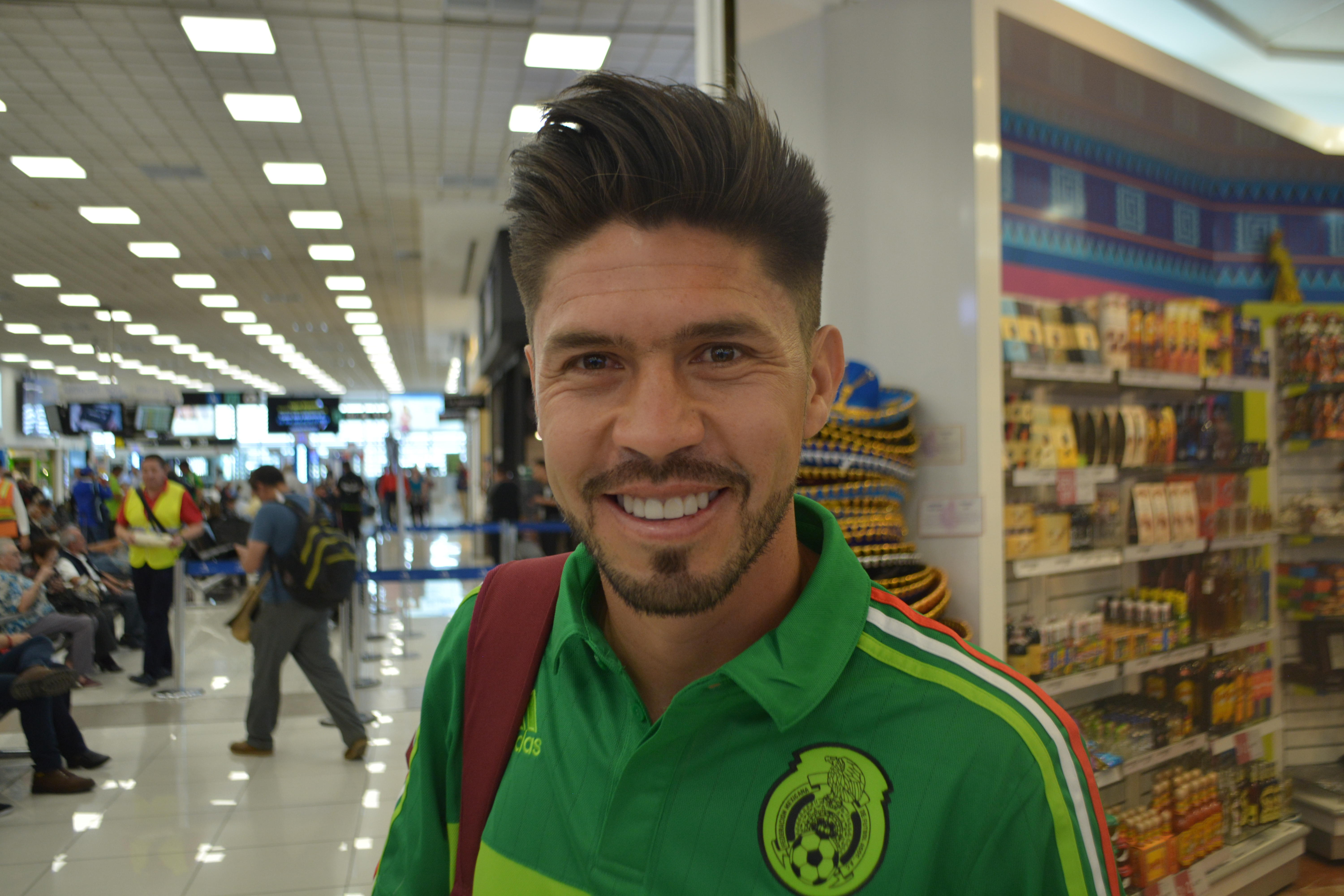 Oribe Peralta, Mexican soccer player. Striker.